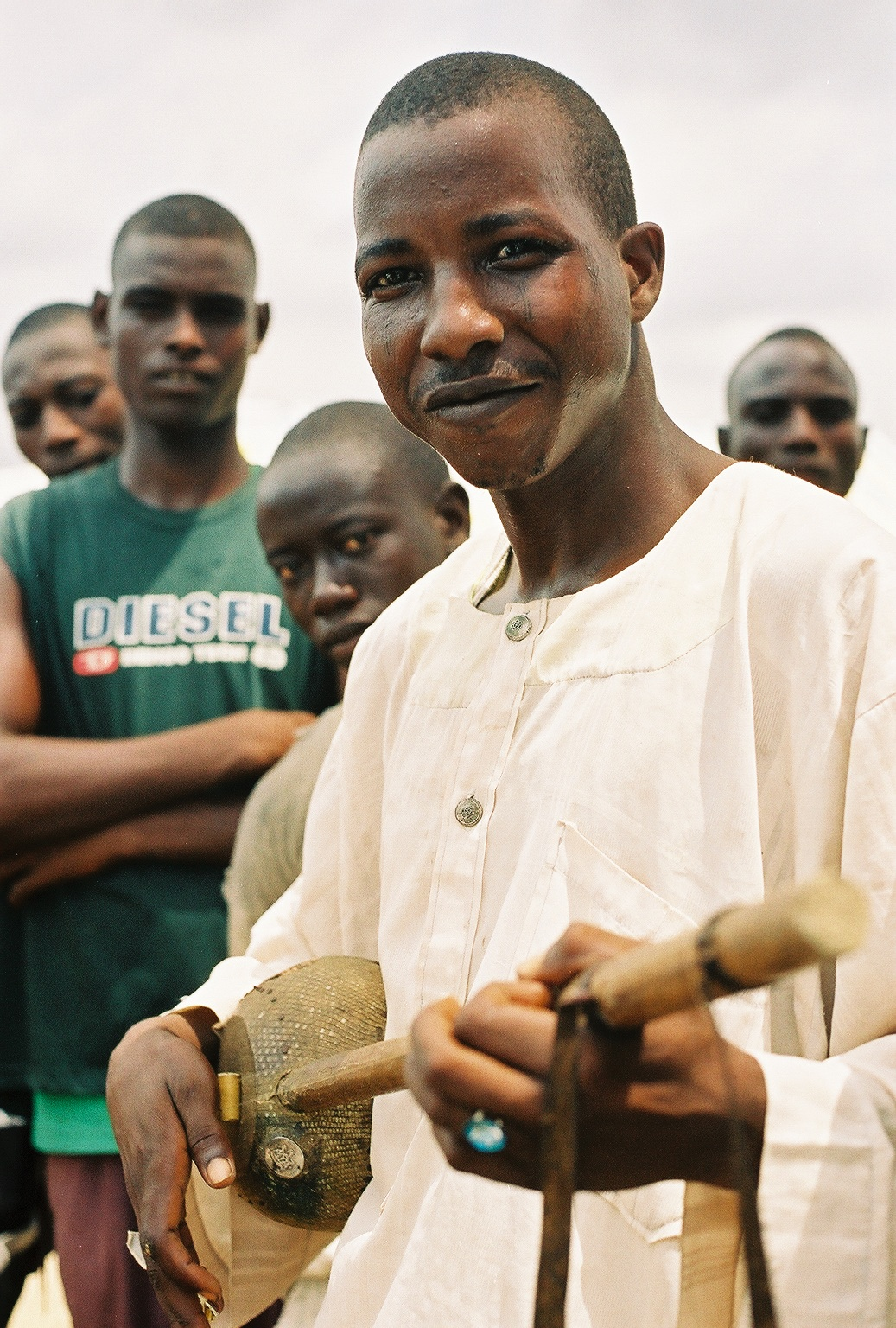 A member of the Hausa ethnic group of northern Nigeria playing with a xalam, a two-stringed instrument.